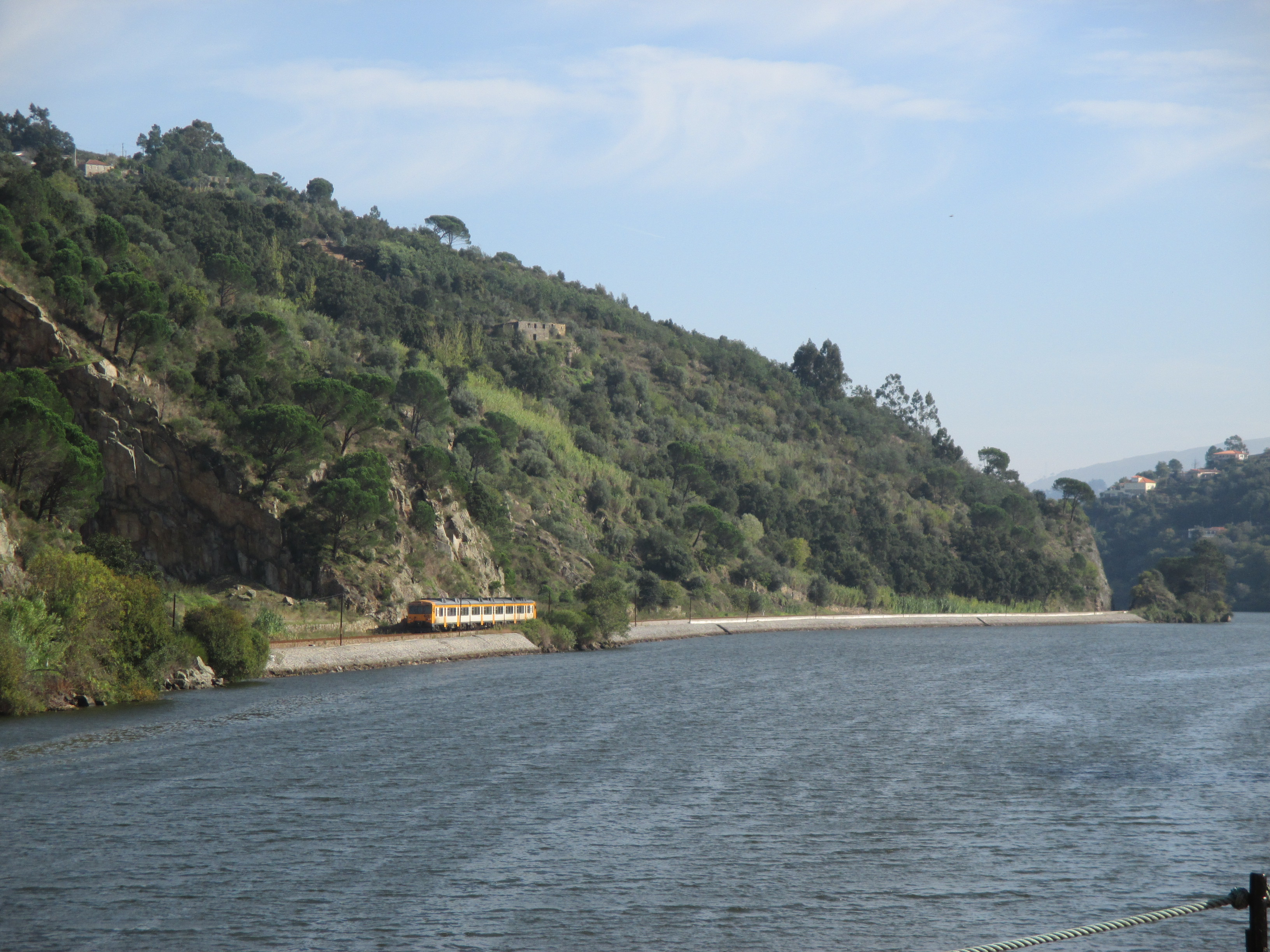 MV Douro Prince. The Linha do Douro railway line runs from Porto to Pocinho; it runs along the north bank from Régua to the Ponte da Farradosa bridge, across that bridge, then along the south bank to Pocinho. It once continued to the Spanish border and on to Salamanca. portugal douro riodouro riverdouro 2014 mvdouroprince